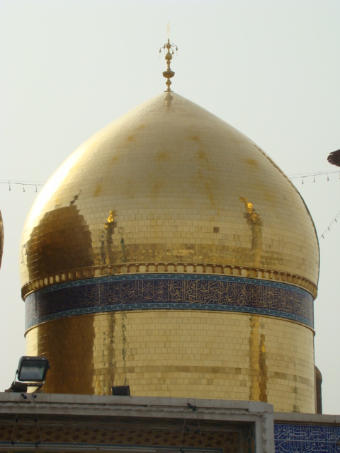 The golden dome of the Imam Muhammad bin Ali Jawad